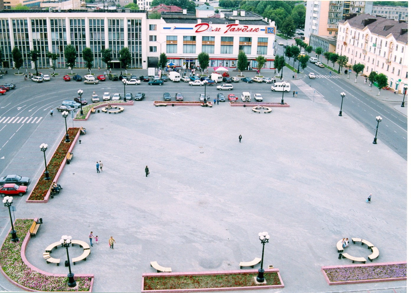 Square in Barysaŭ